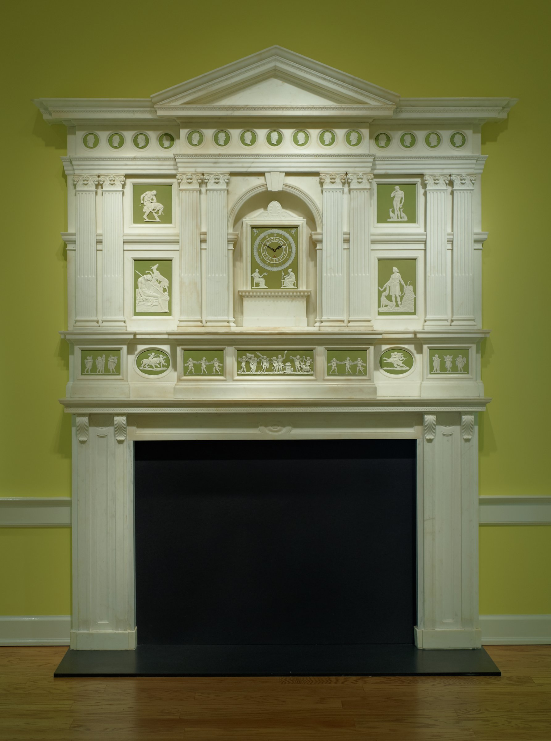 A "peach green" or "Dysart green" Wedgwood mantelpiece designed by Halsey Ricardo.